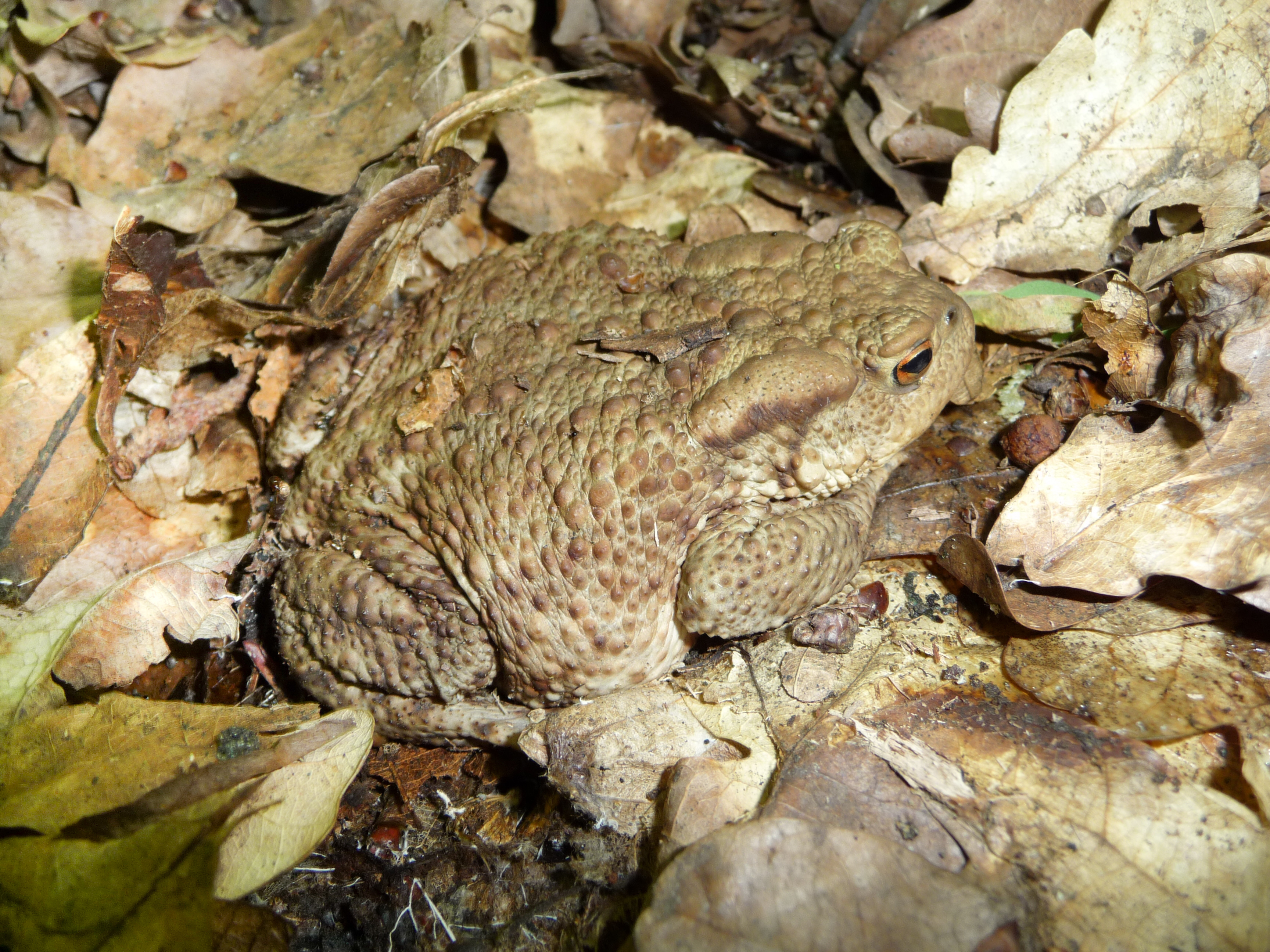 The common toad or european toad (Bufo bufo). Ukraine. Example of an excellent camouflage to a background